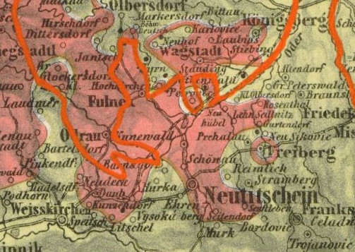 Historical region of Kuhländchen/Kravařsko on map from 1855